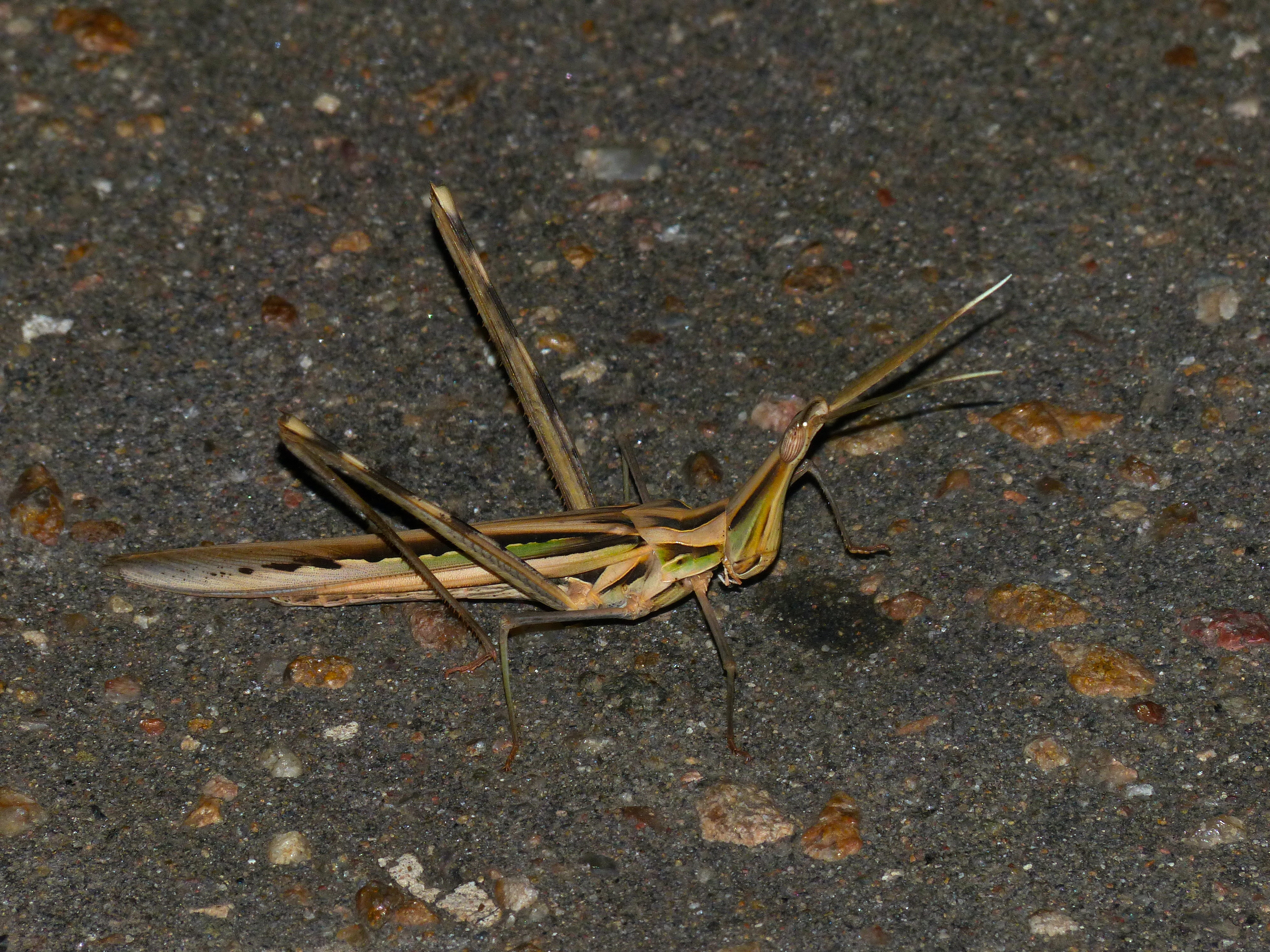 H1-6 Road South of Mopani , Kruger NP, SOUTH AFRICA